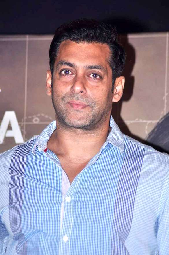 Salman Khan at the launch of 'Ek Tha Tiger's first song 'Mashallah'